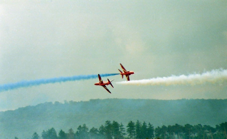 Two Hawker Siddley Hawk T.1 of the Royal Air Force Red Arrows aerobatics team at an airshow at Ramstein Air Base, Rhineland-Palatinate (Germany) on 24 June 1984.